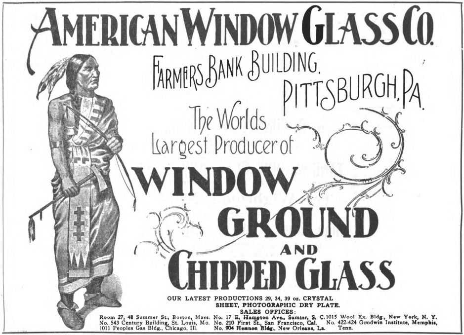 Advertisement for American Window Glass Company from 1913 edition of National Glass Budget